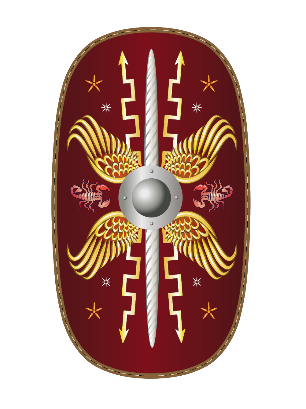 Roman Buckler of the Praetorian Guard / 1st century